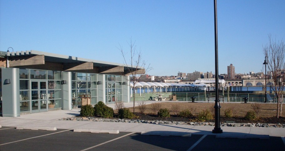 Edgewater, NJ Ferry, south view